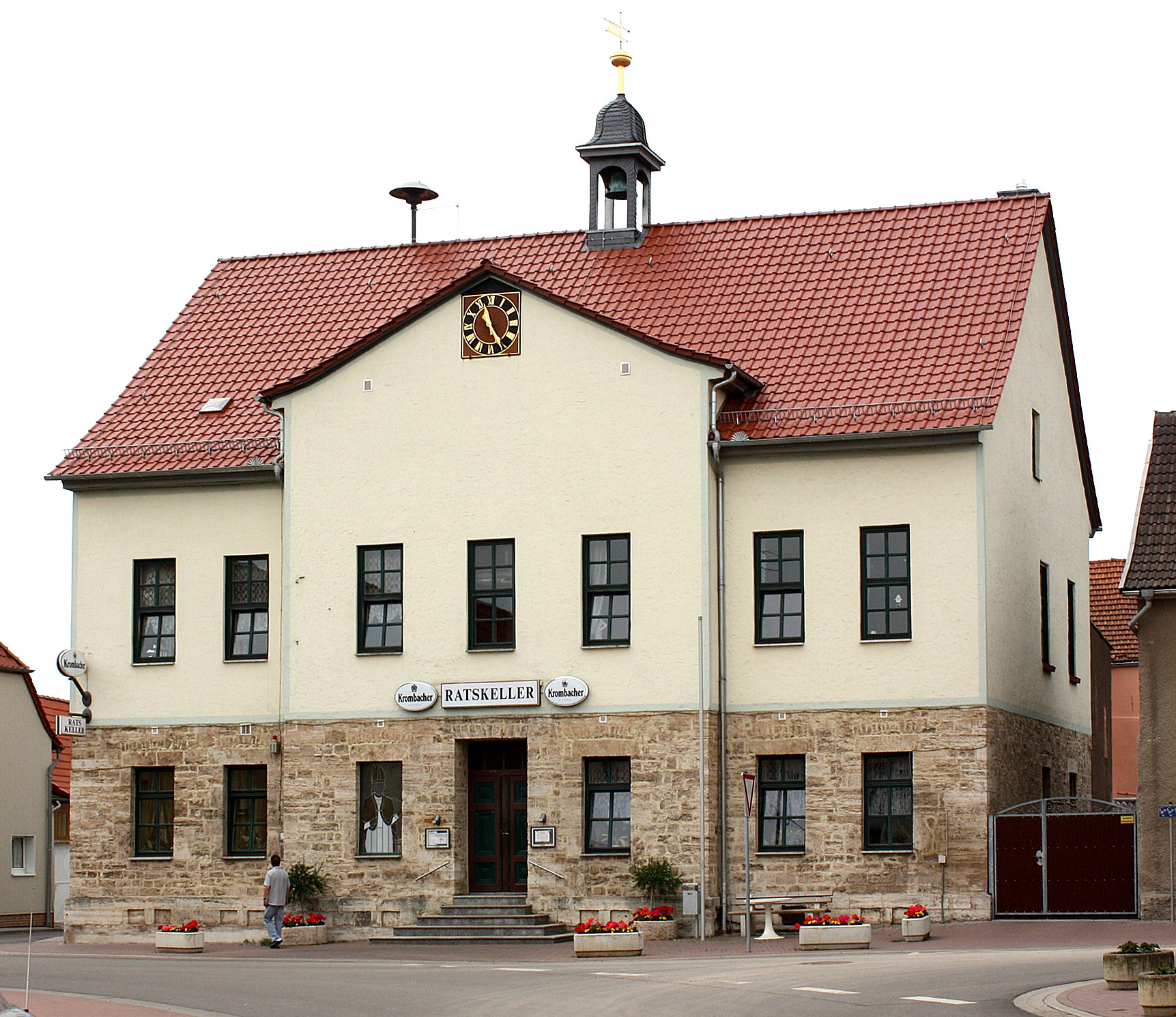 Clingen, the town hall